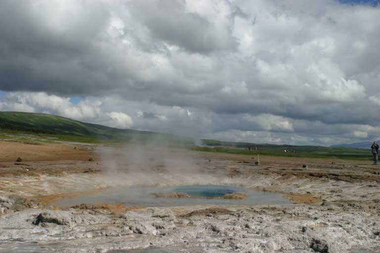 Geyser exploding. 1. Steam rises from heated water